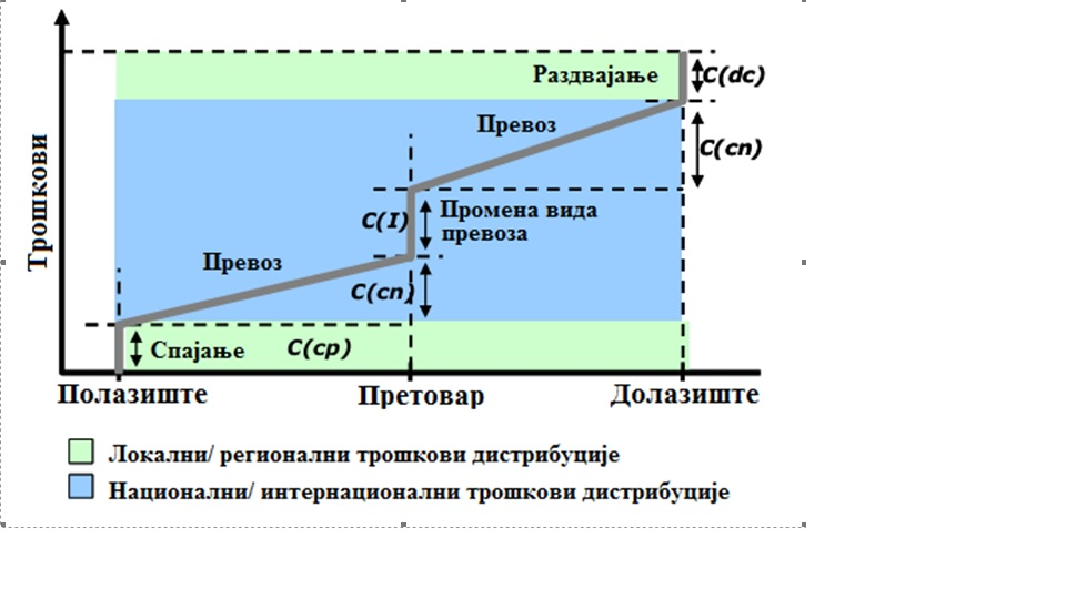 Функција трошкова интермодалног транспорта